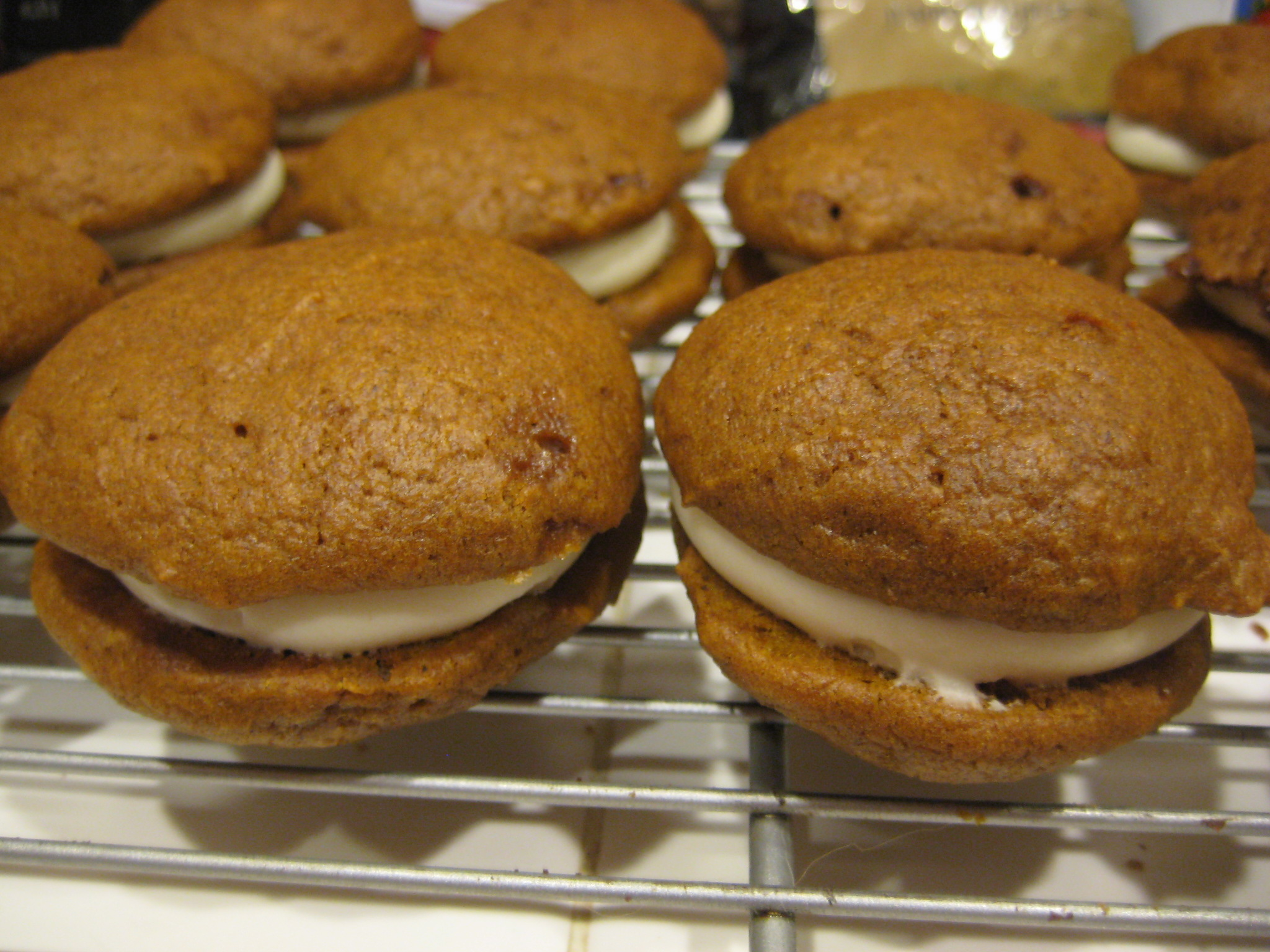 Whoopie Pies on wire rack